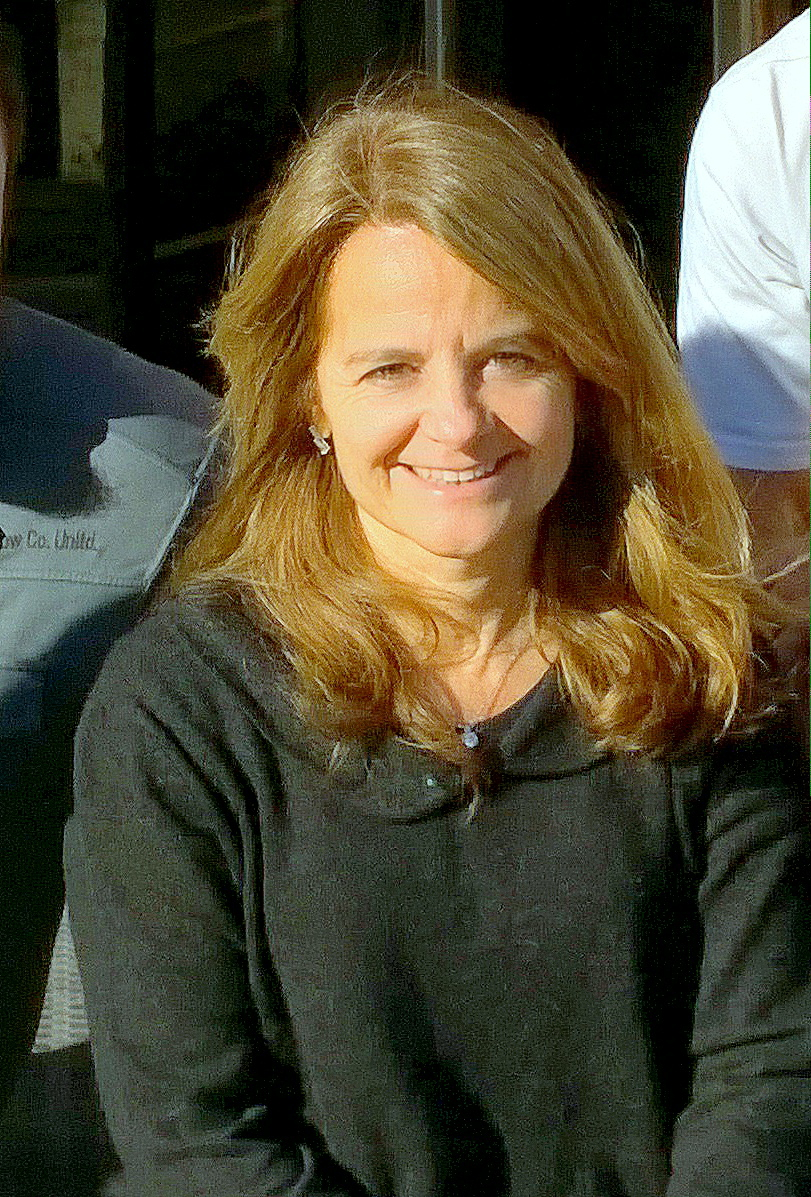 Cecilia Bouzat, Argentinian biochemist